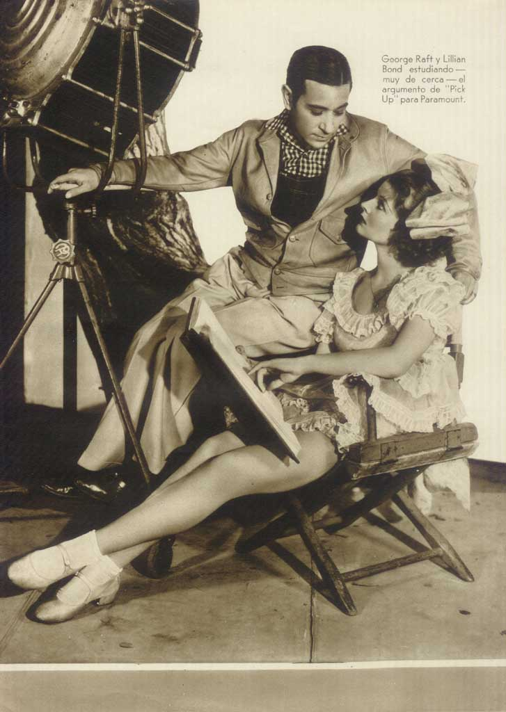 Publicity photo of George Raft & Lilian Bond for Argentinean Magazine. (Printed in USA)